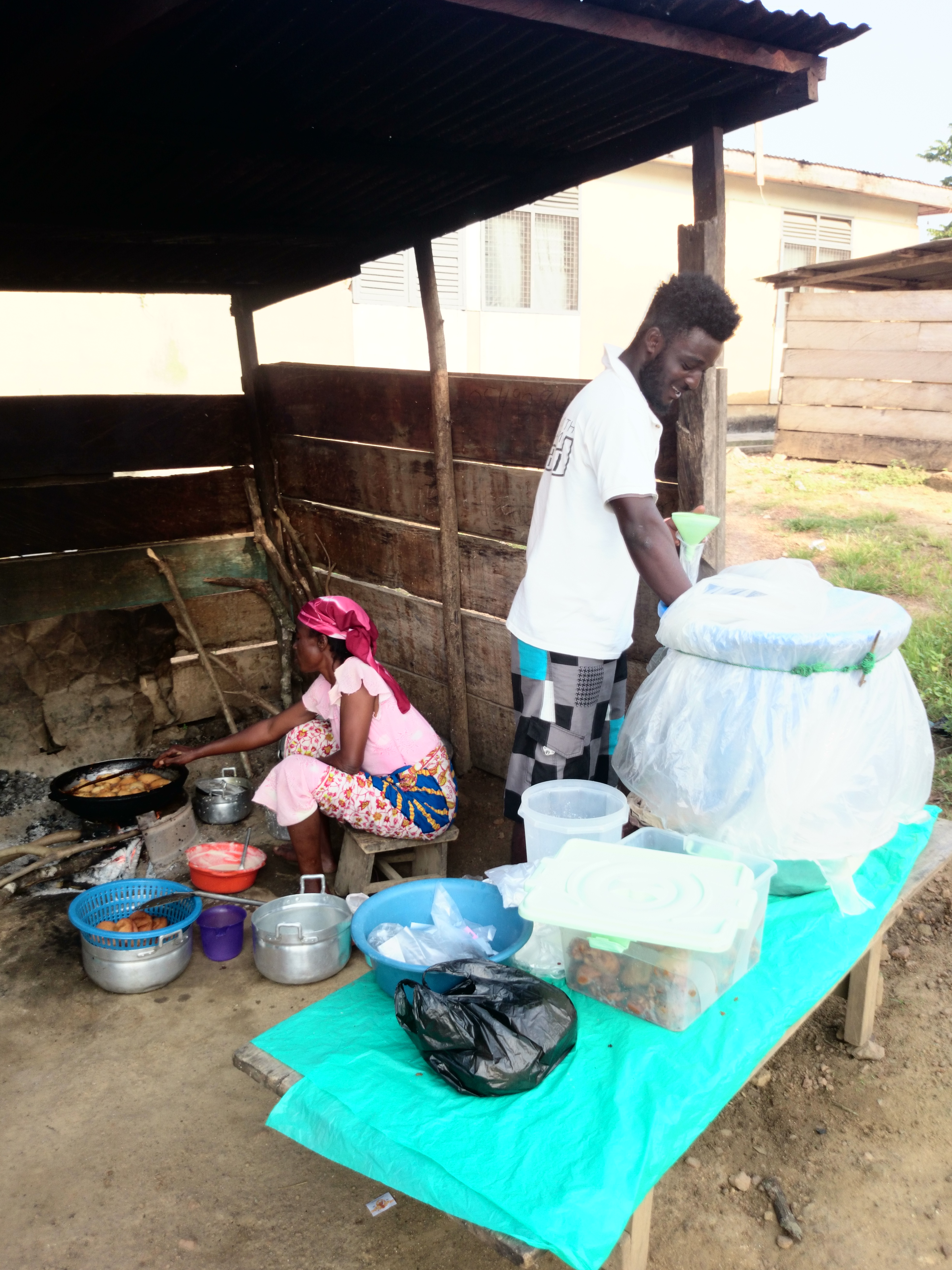 Hausa Koko seller serving.